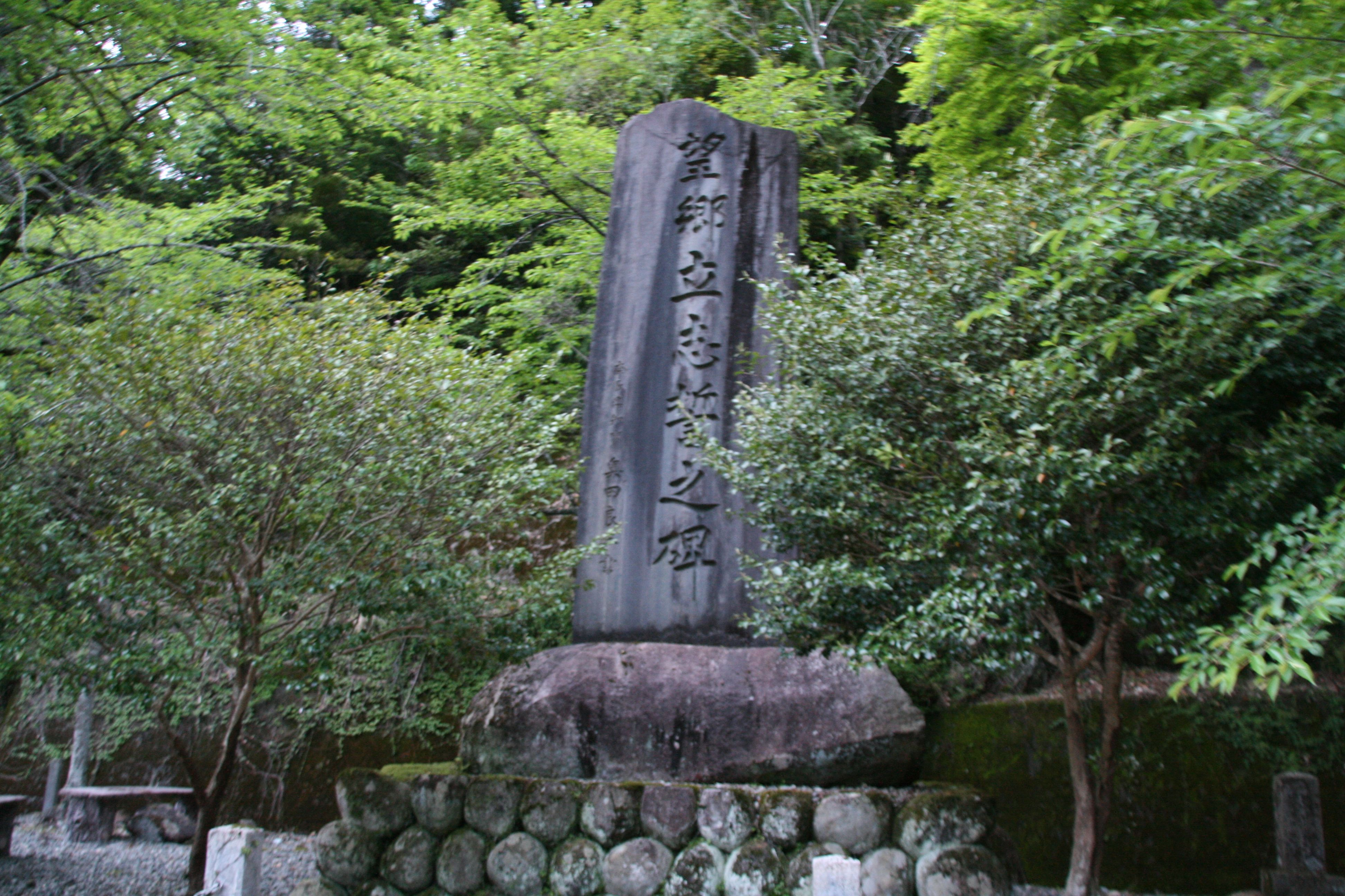 Nishihara, Kamikitayama, Yoshino District, Nara Prefecture 639-3704, Japan